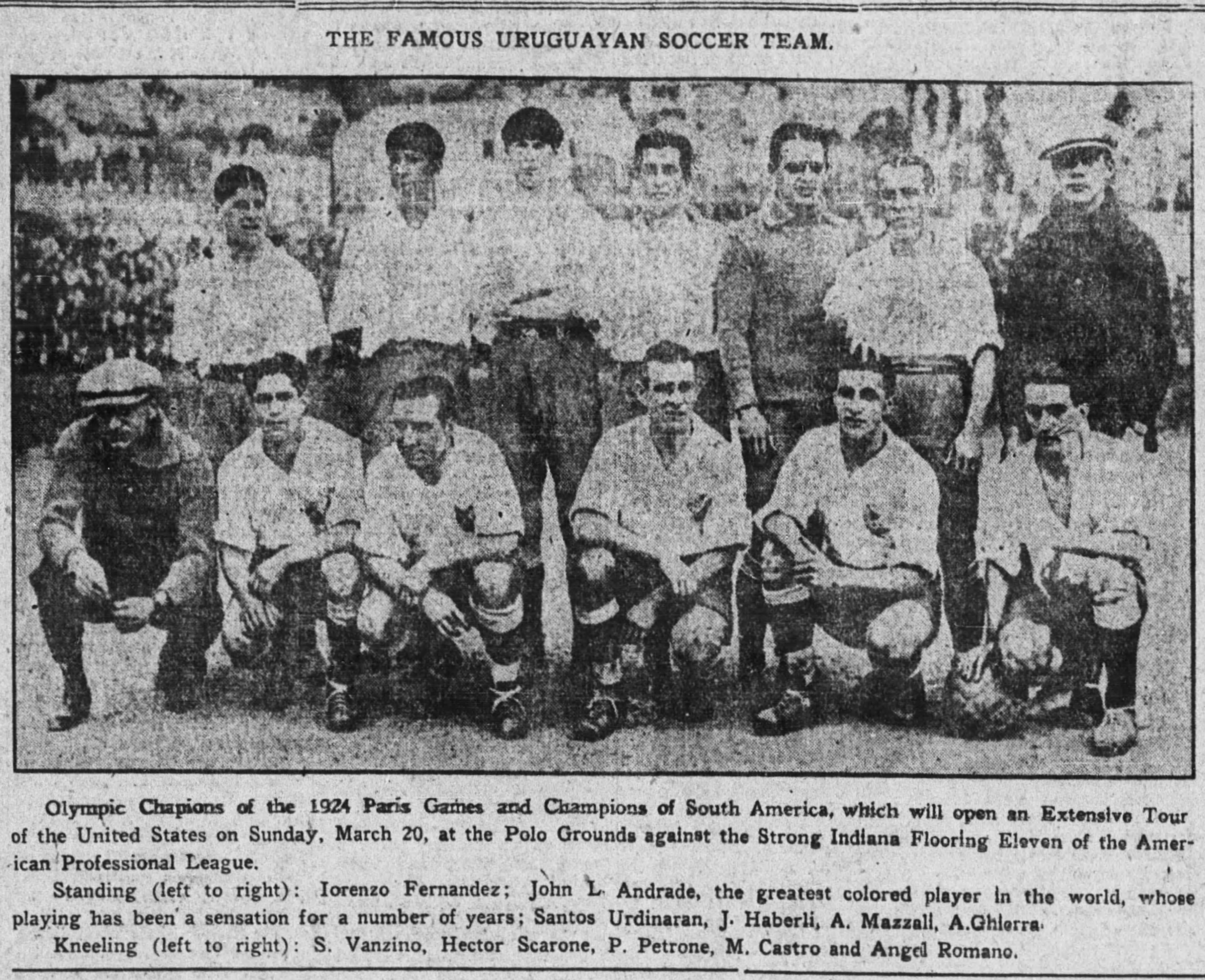 Club Nacional de Football team during its tour on the US in 1927.